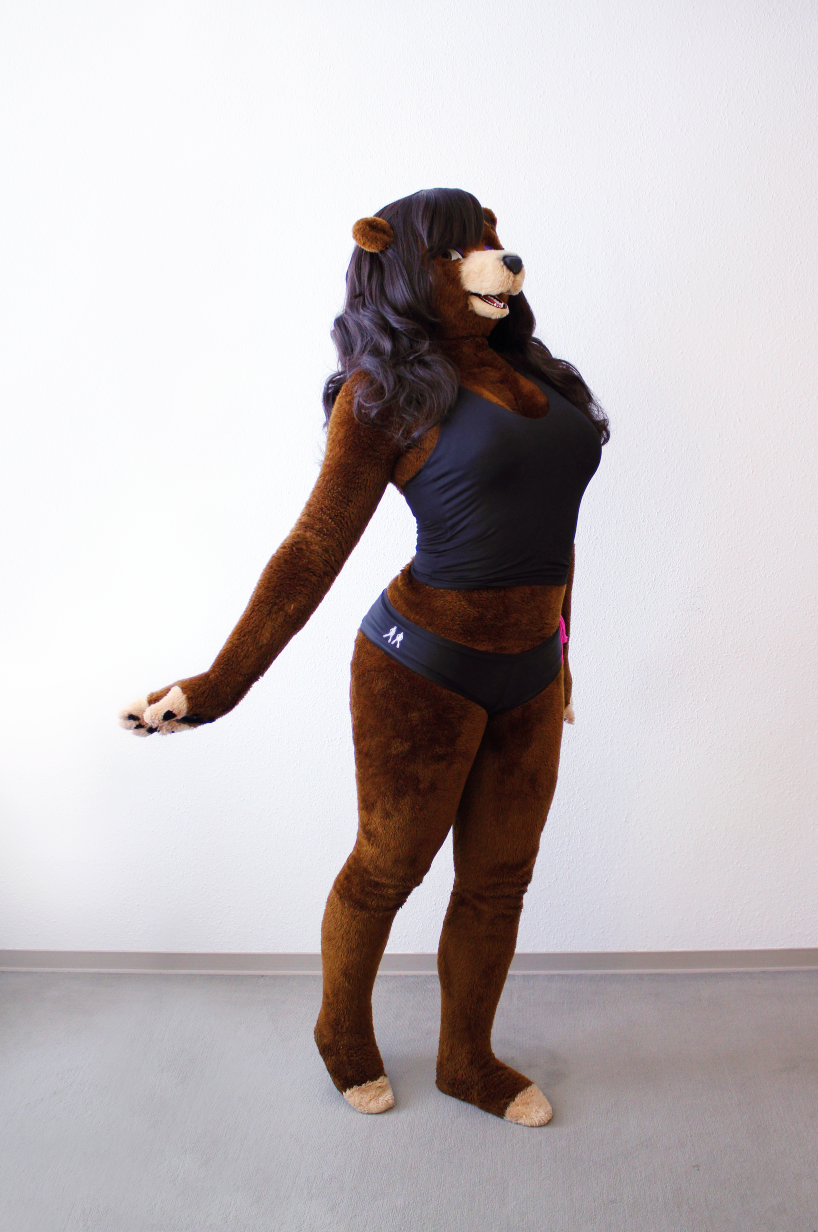 A fursuit designed by Winfoxi, owned and performed by Kiwi Kig. Character name is Cherry.